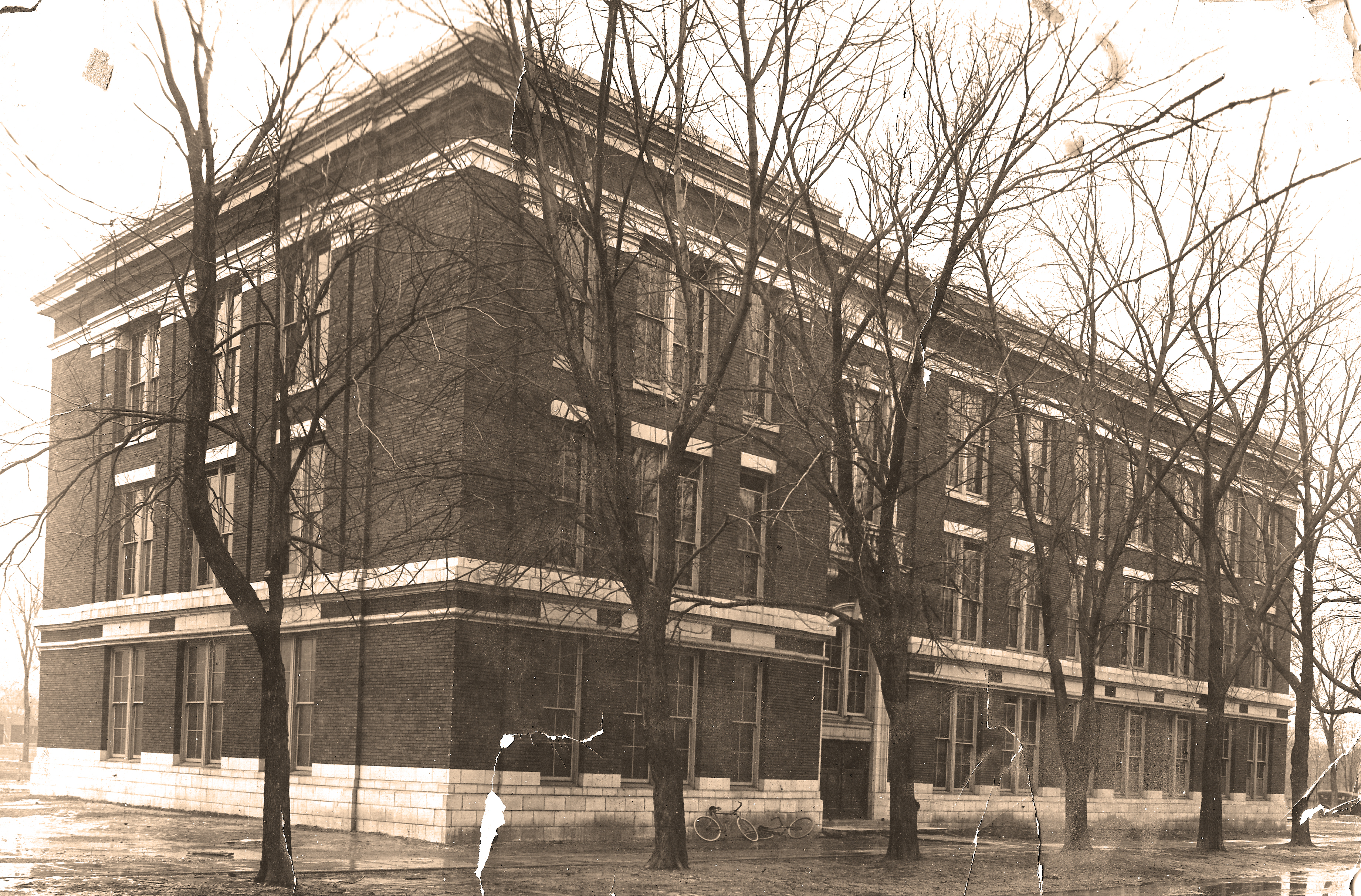 Morgan Park High School, February 1916